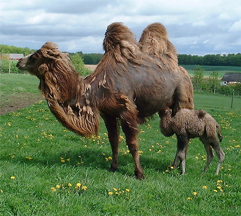 Camel